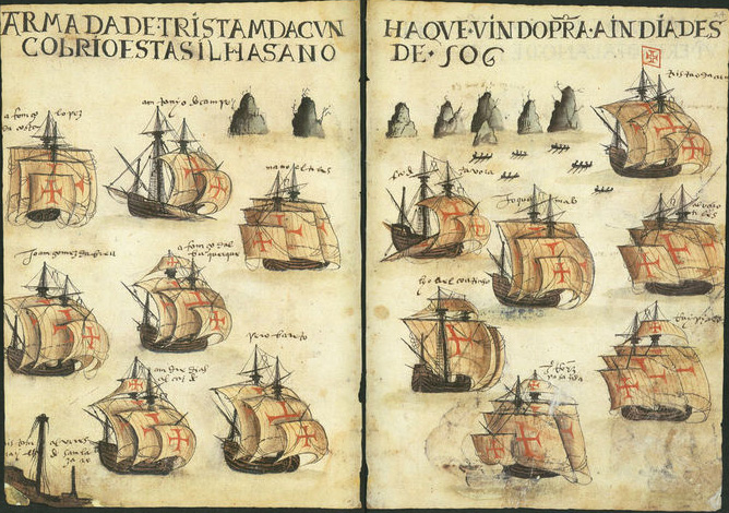 Depiction of the 8th Portuguese India Armada (1506 fleet led by Tristão da Cunha) from the Livro de Lisuarte de Abreu, c.1565 (held by Pierpont Morgan Library, M.525)